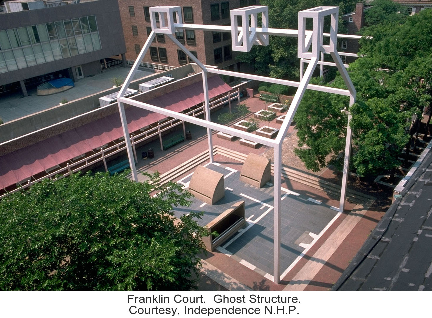 The old cracked Bell still proclaims Liberty and Independence Hall echoes the words, "We the People." Explore Franklin's Philadelphia and learn about the past and America's continuing struggle to fulfill the Founders' Declaration that "all men are created equal."